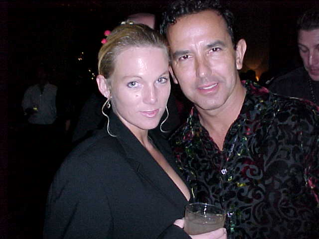 Missy and Mickey G., October 31, 1999